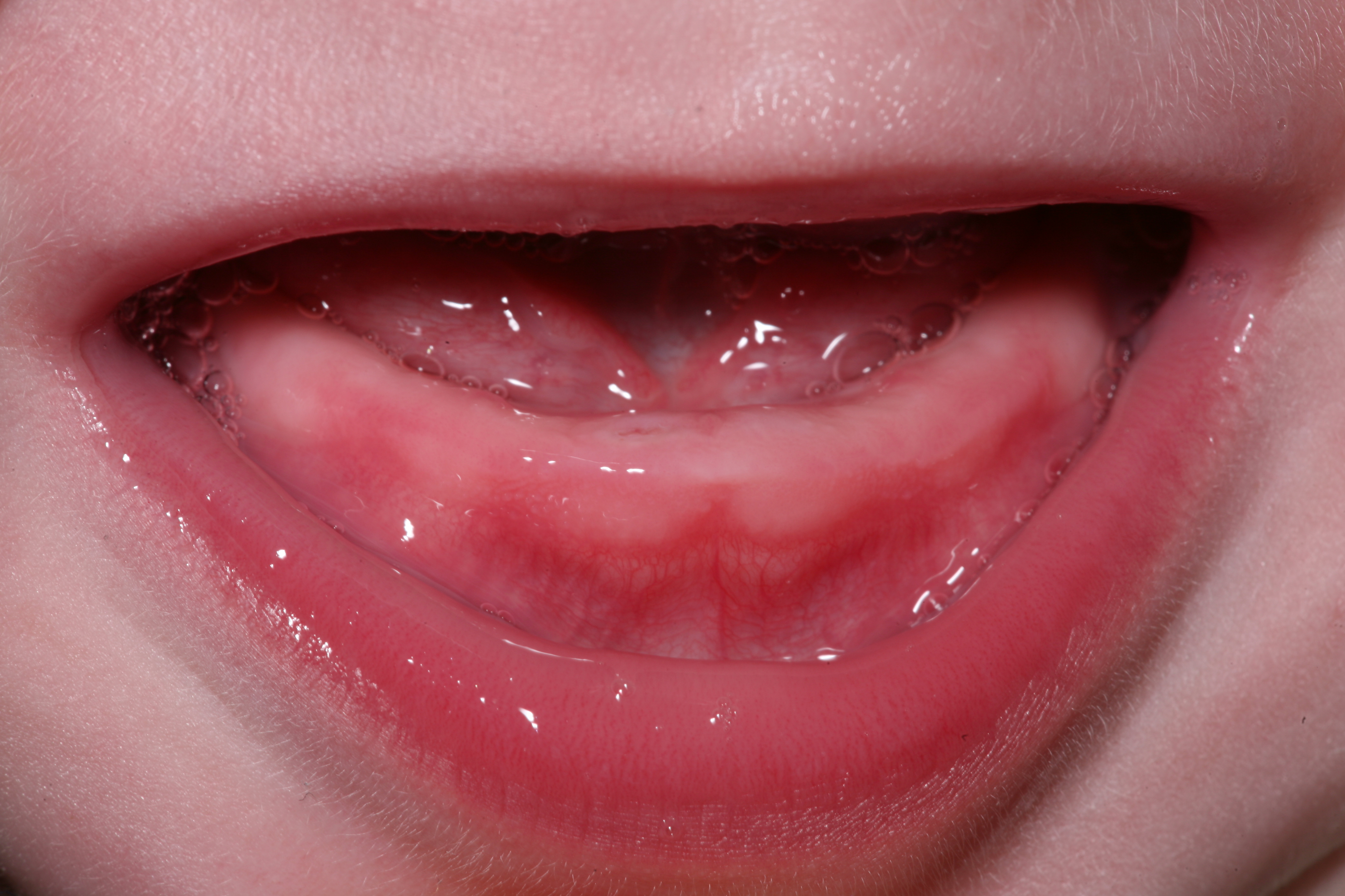 Teething baby: first sign of the lower right incisor breaking through.